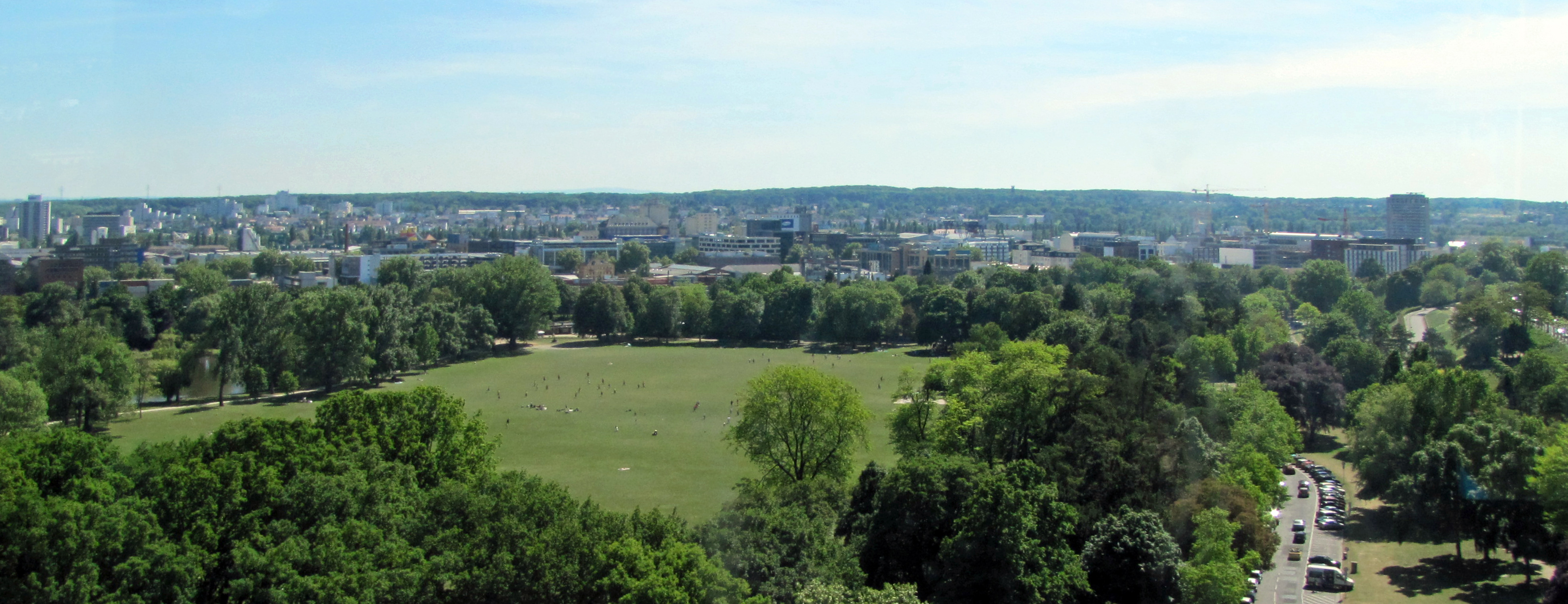 Ostpark (Eastpark) in Frankfurt-Ostend, Hesse, Germany